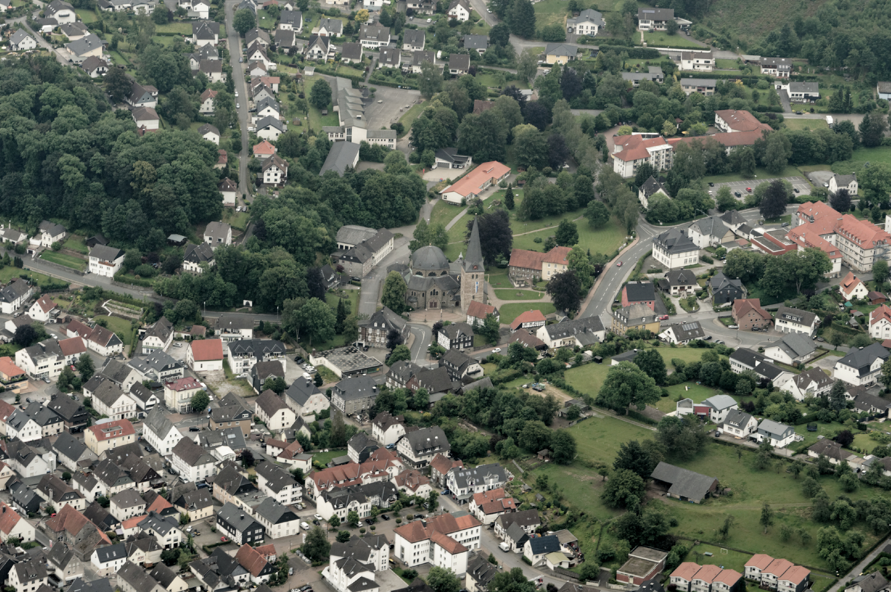 Fotoflug Sauerland Nord The making of this document was supported by the Community-Budget of Wikimedia Germany.